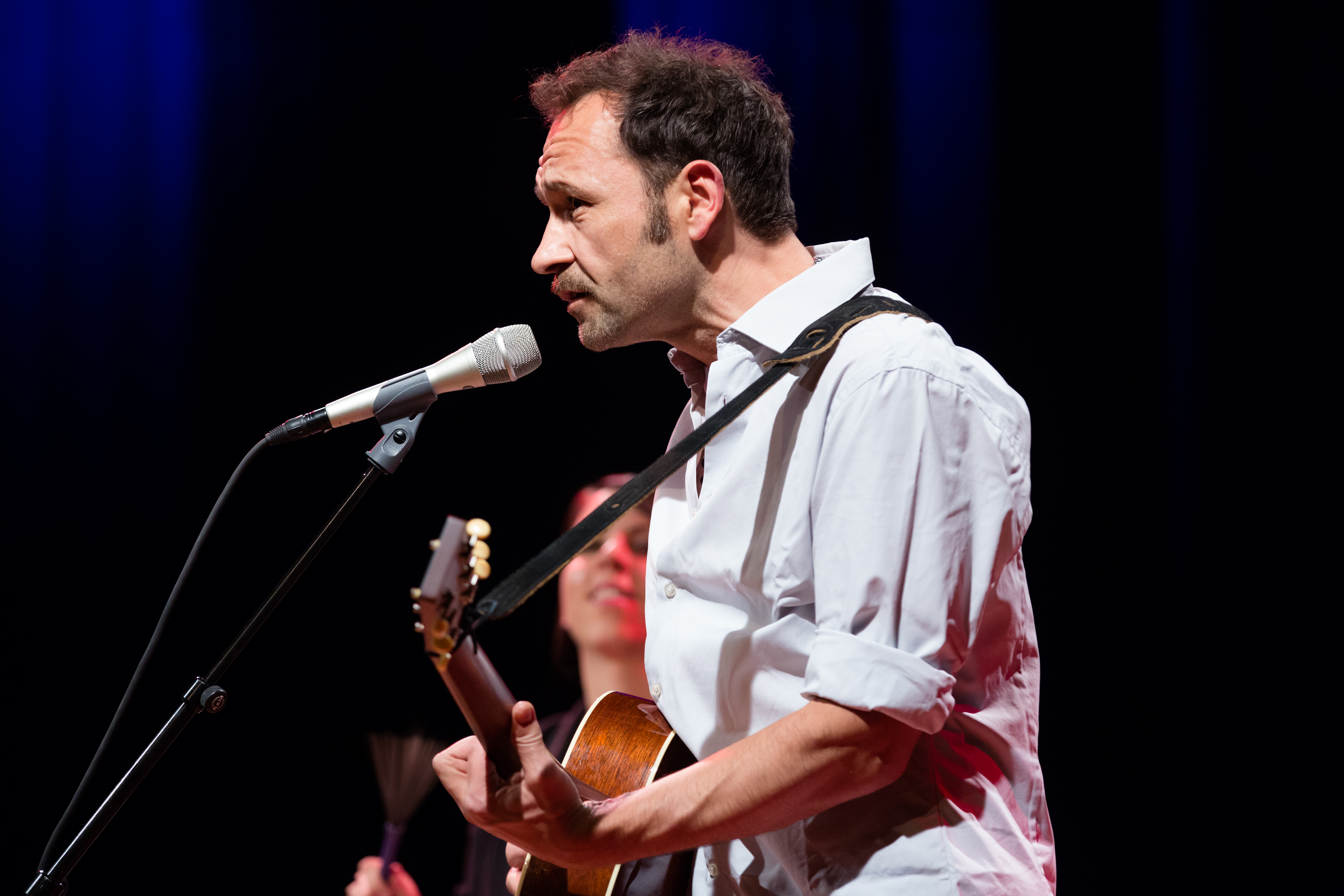 Familie Lässig, concert at the charity event An Evening for Licht ins Dunkel 2015 at Radiokulturhaus/Funkhaus Wien in Vienna, Austria.